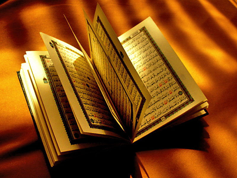 A copy of the Qur'an opened for reading